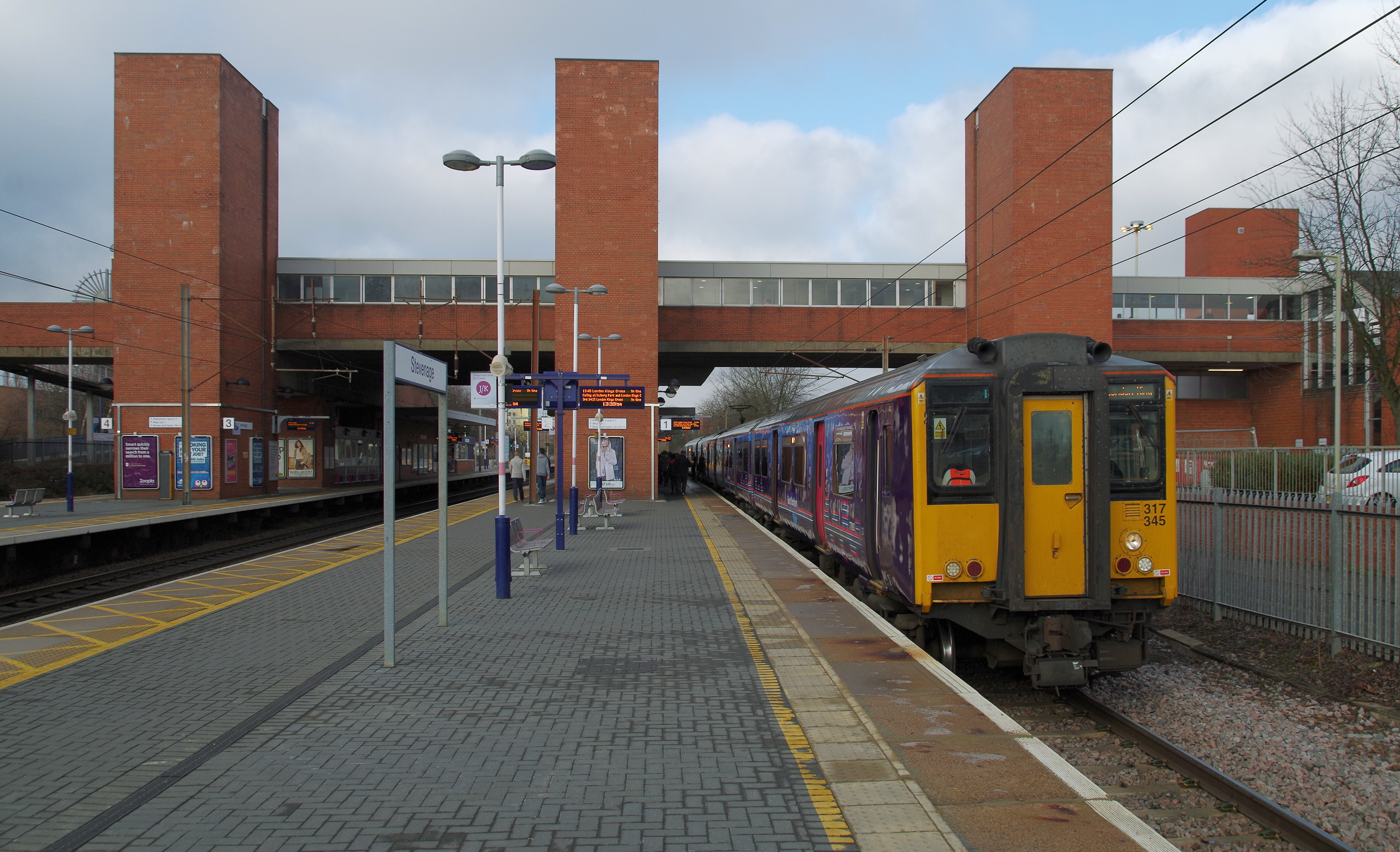 Govia Thameslink Railway class 317 EMU 317345 stands at Stevenage, working a Cambridge to King's Cross stopping service.